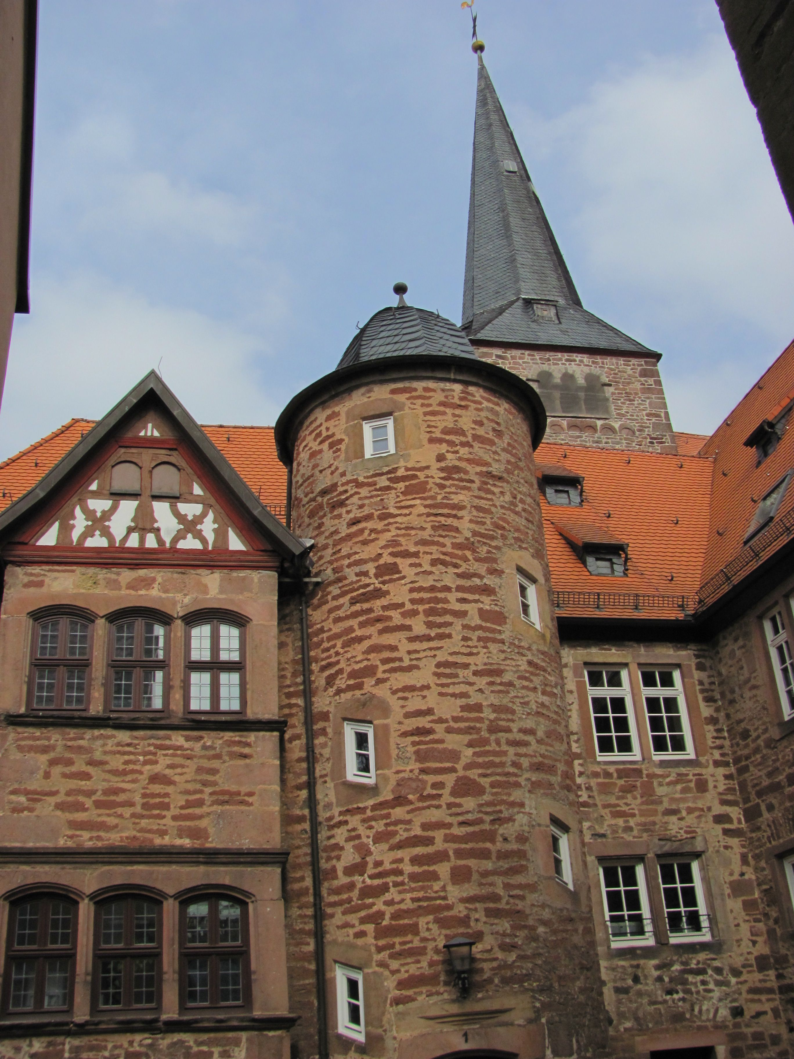 Schlüchtern Monastery